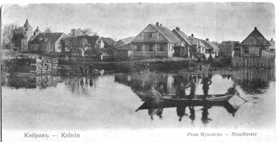 River Muchavec in Kobryn